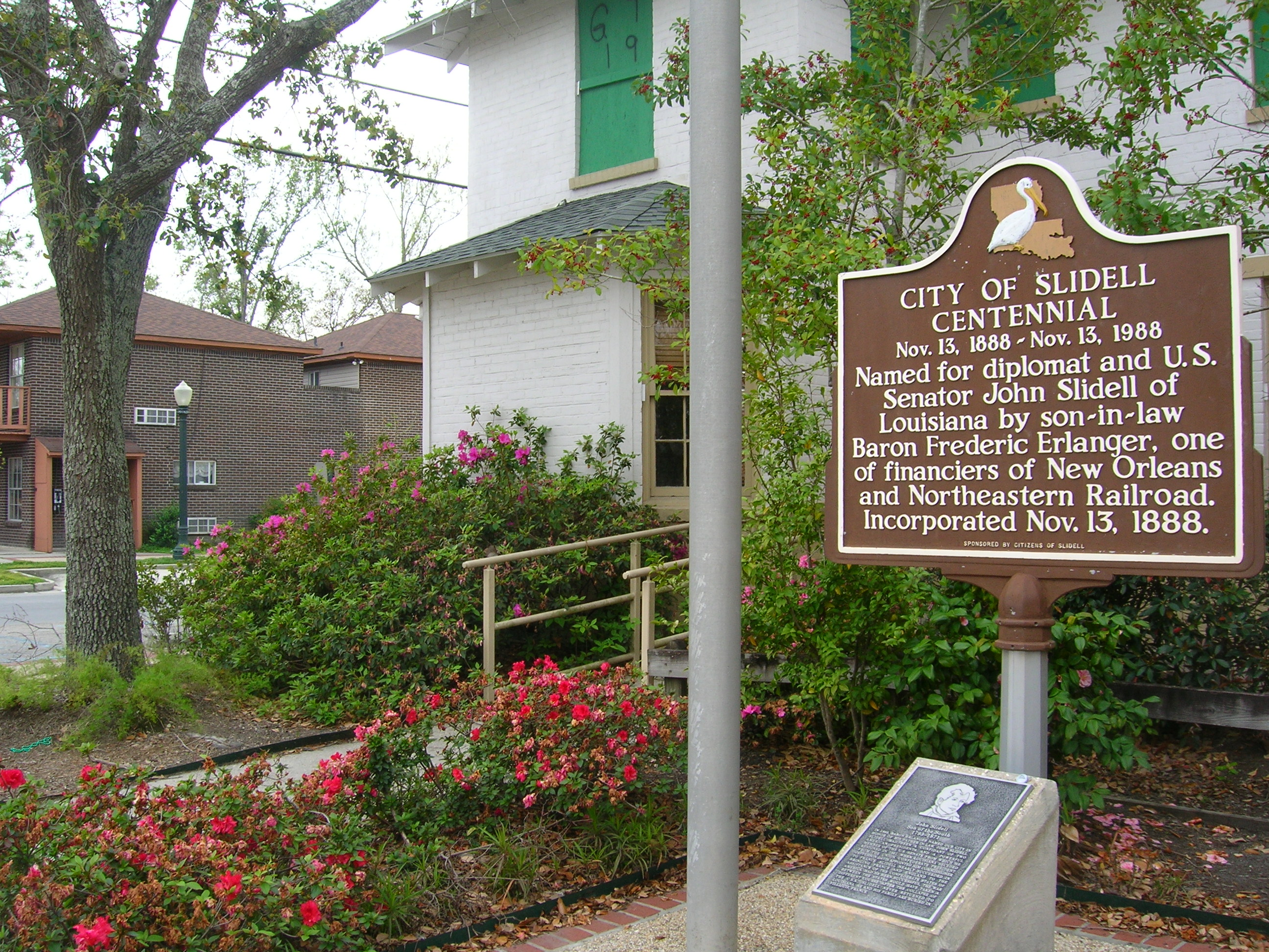 Slidell, Louisiana is a bustling community on the norhtern shore of Lake Pontchartrain, about 20 miles northeast of New Orleans.